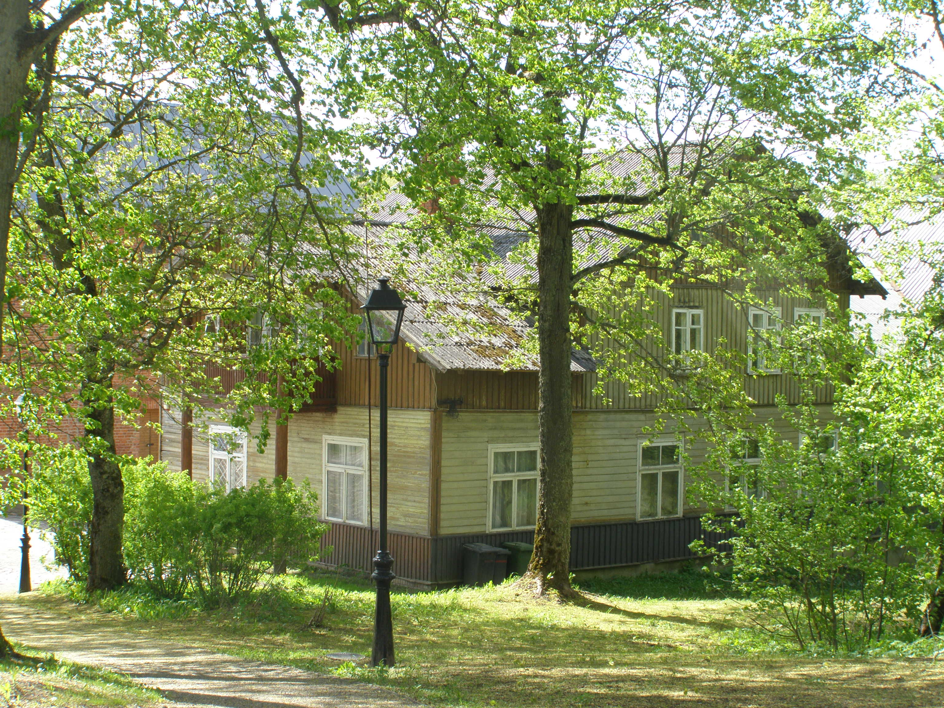 Biržuvėnai manor, Telšiai district, LithuaniaLietuvių: Biržuvėnų dvaro inžinieriaus namas, Telšių rajonas, Lietuva